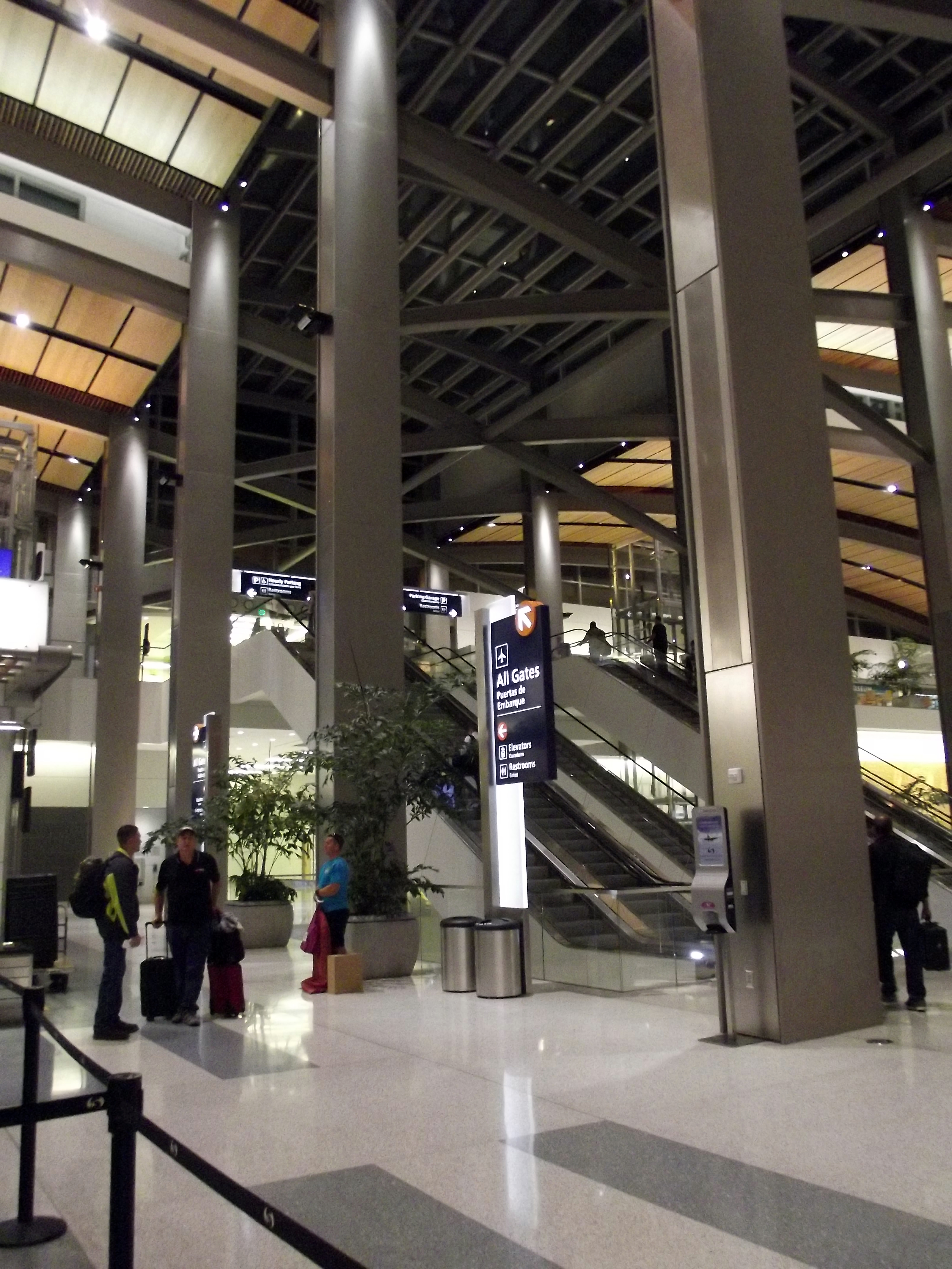 Sacramento International Airport